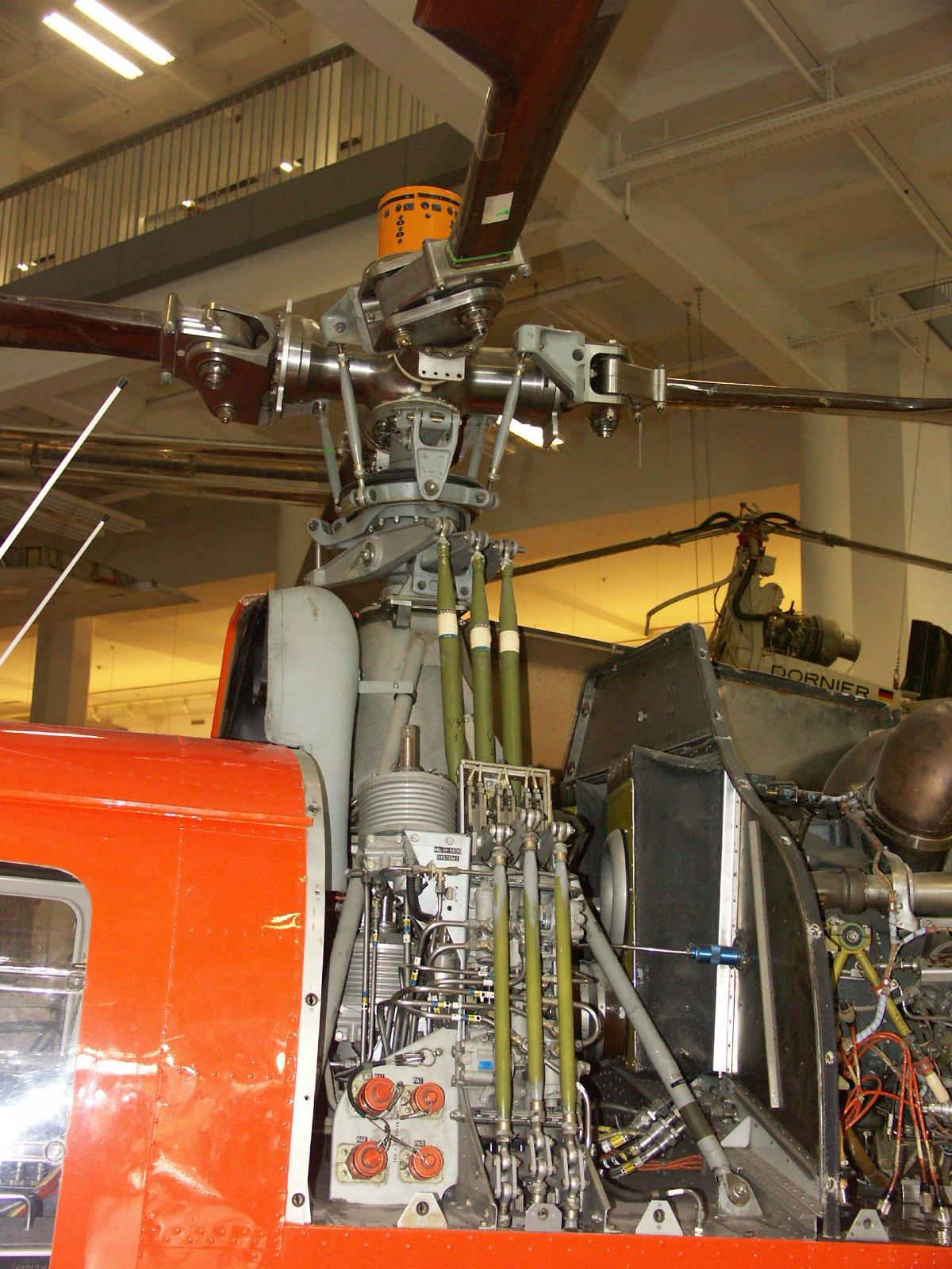 BO 105 actuators, Deutsches Museum in Munich